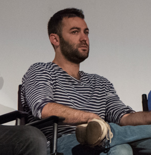 The cast & crew of the TV show Casual at the ATX TV Festival presentation for it. From left: Jason Reitman, Zander Lehmann, Tara Lynne Barr, Liz Tigelaar, Michaela Watkins, Tommy Dewey and Helen Estabrook